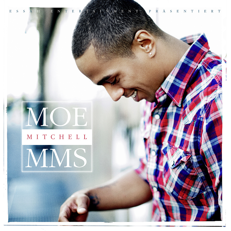 Cover des Albums „MMS“